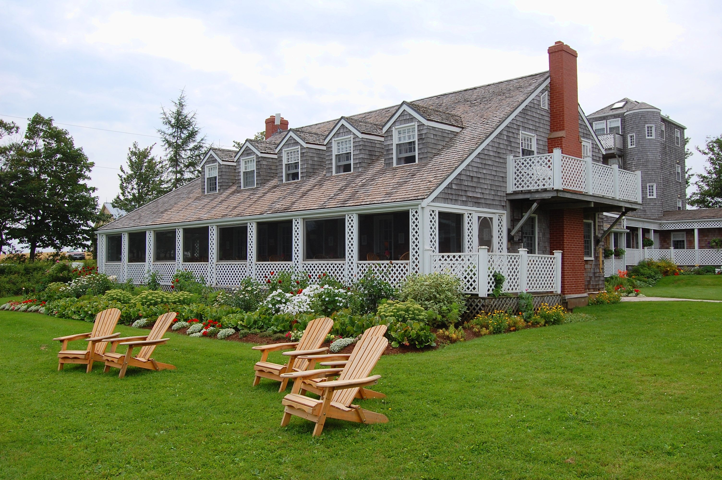 Photo of the summer home of Elmer Blaney Harris in Fortune Bridge, Prince Edward Island, Canada. It was also once owned by the actress Colleen Dewhurst.